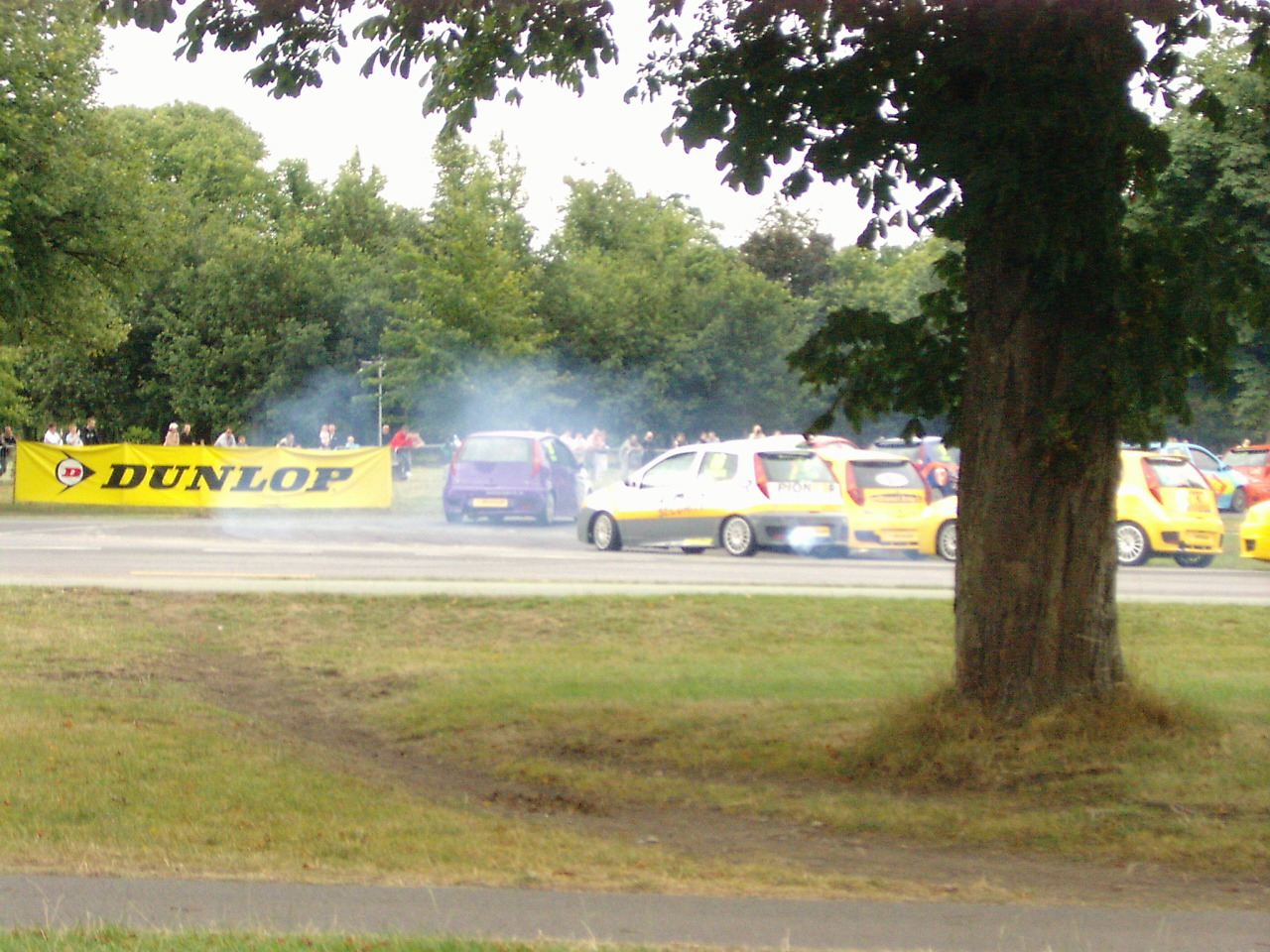 Phoenix Park Motor Races 2006